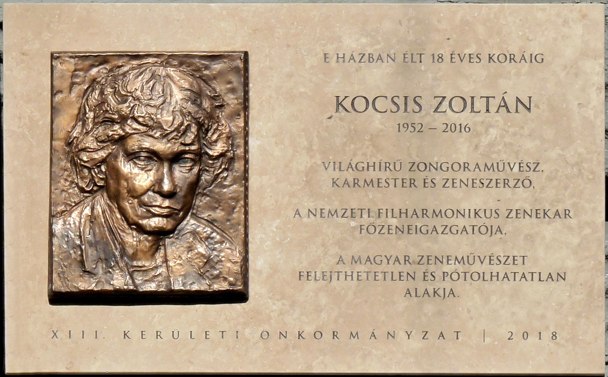 Commemorative plaque to Mr. Zoltán Kocsis (1952–2016) Hungarian pianist, composer, conductor and teacher. It was affixed to the wall of the building where he lived until he was 18 years old and unveiled on October 1st, 2018. Author of the bronz relief is Mr. István Buda. (Budapest, District XIII, Szent István Boulvard Nr 22)